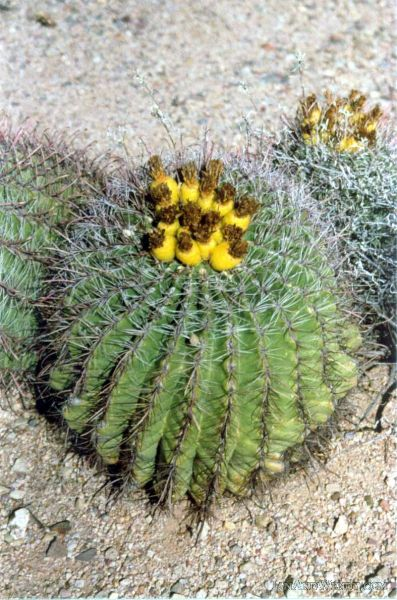 A cactus in the Arizona desert